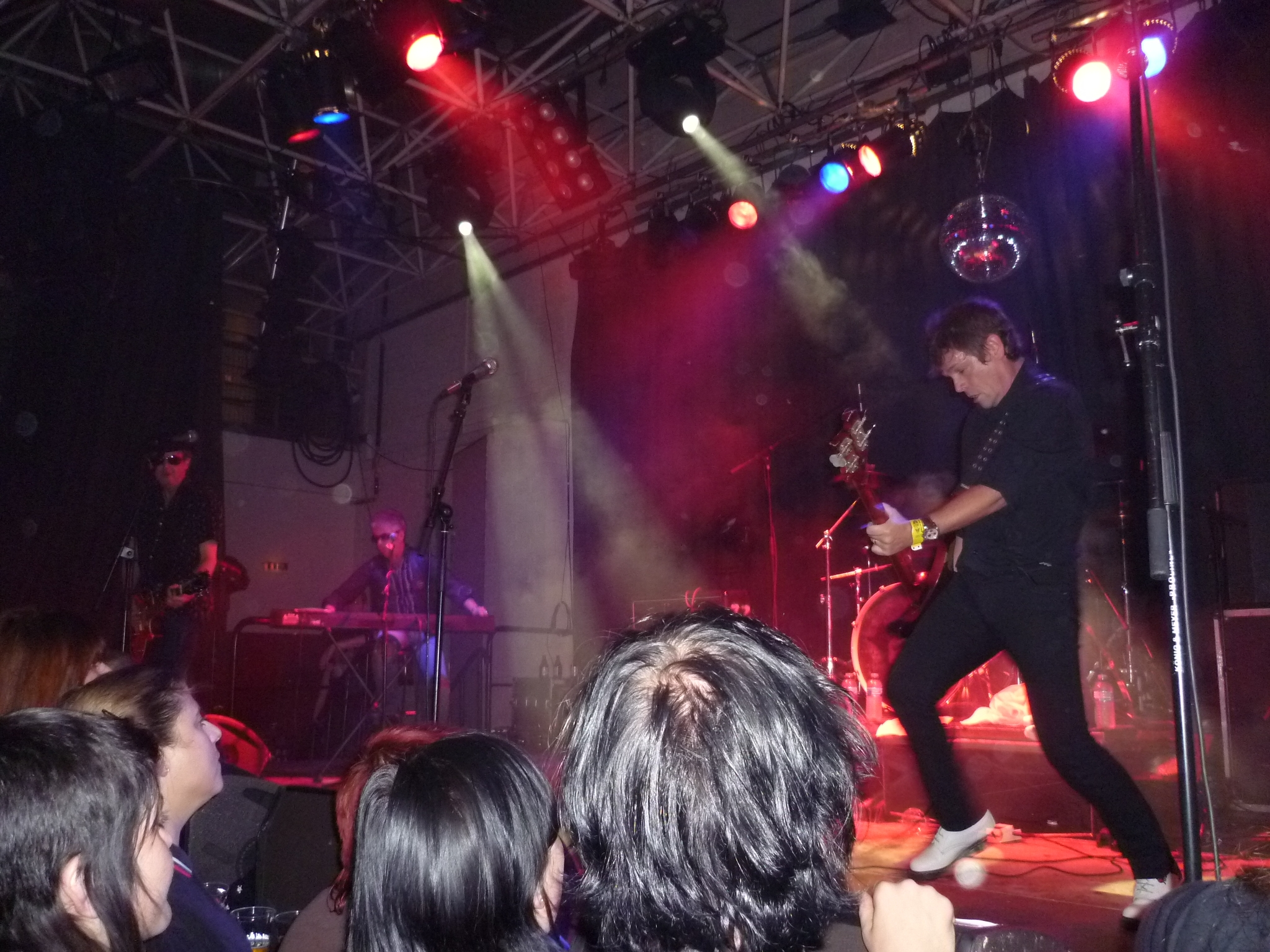 The Boys live in Düsseldorf (Zakk)